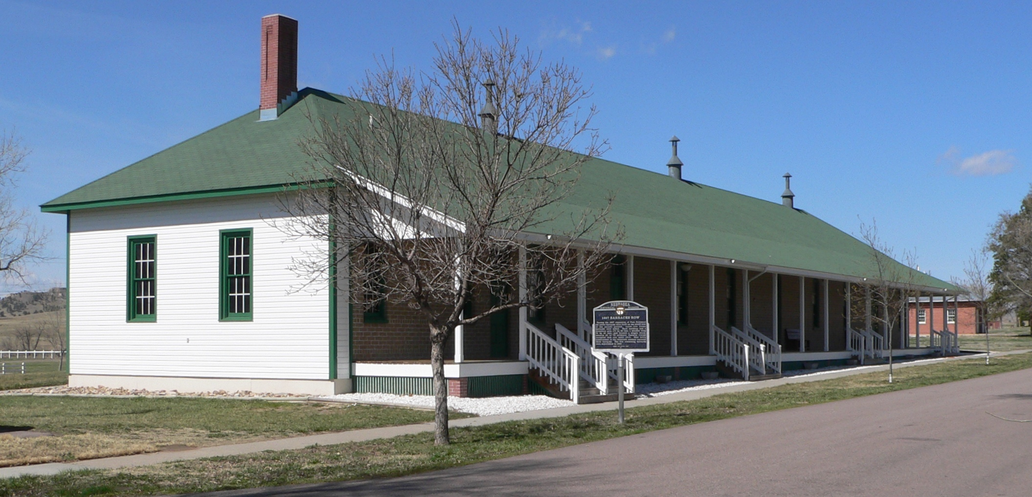 Barracks at Fort Robinson near Crawford, Nebraska.